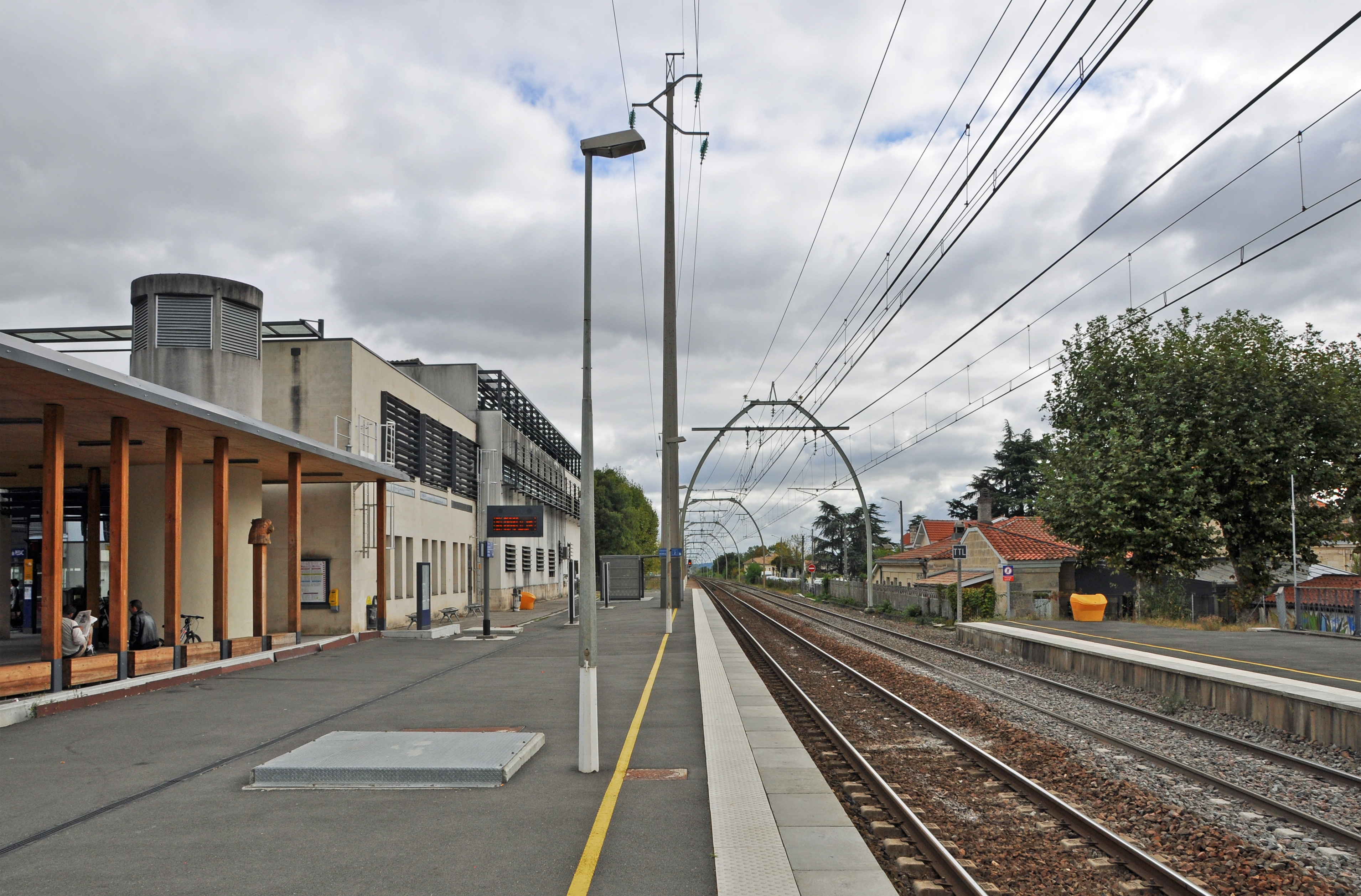 Pessac (Département de la Gironde, France): train station